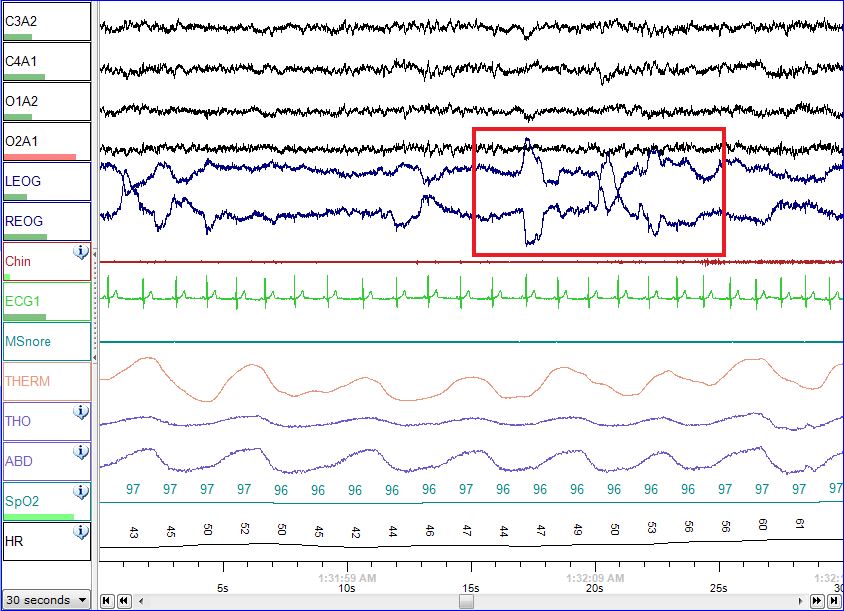 Screenshot of a PSG of a person in REM sleep.